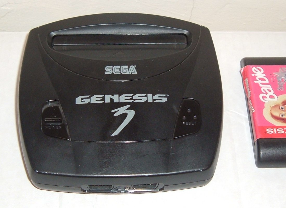 This is a picture of a North American Sega Genesis 3. It is much smaller than the original model as can be seen by the size comparison against a game cartridge. I, Ben Wong, created this image myself and license it for use under the GNU FDL.